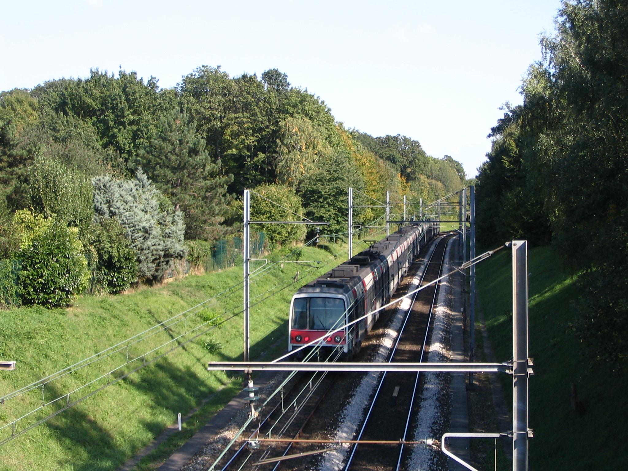 The RER A railway crossing Champs-sur-Marne, Seine-et-Marne, France.